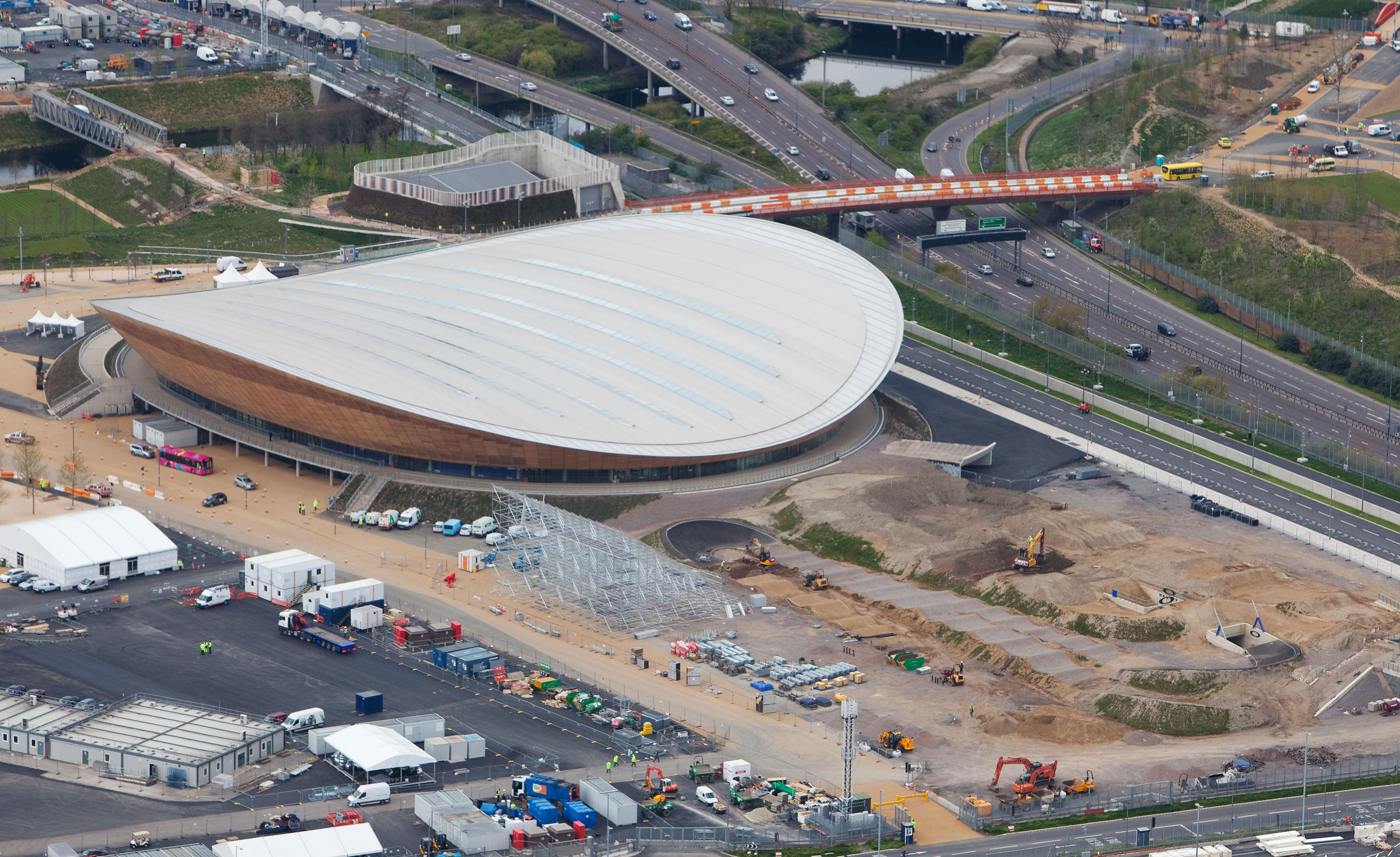 Aerial view of the Olympic Park showing the Velodrome with BMX Track to the right. Picture taken on 16 April 2012.